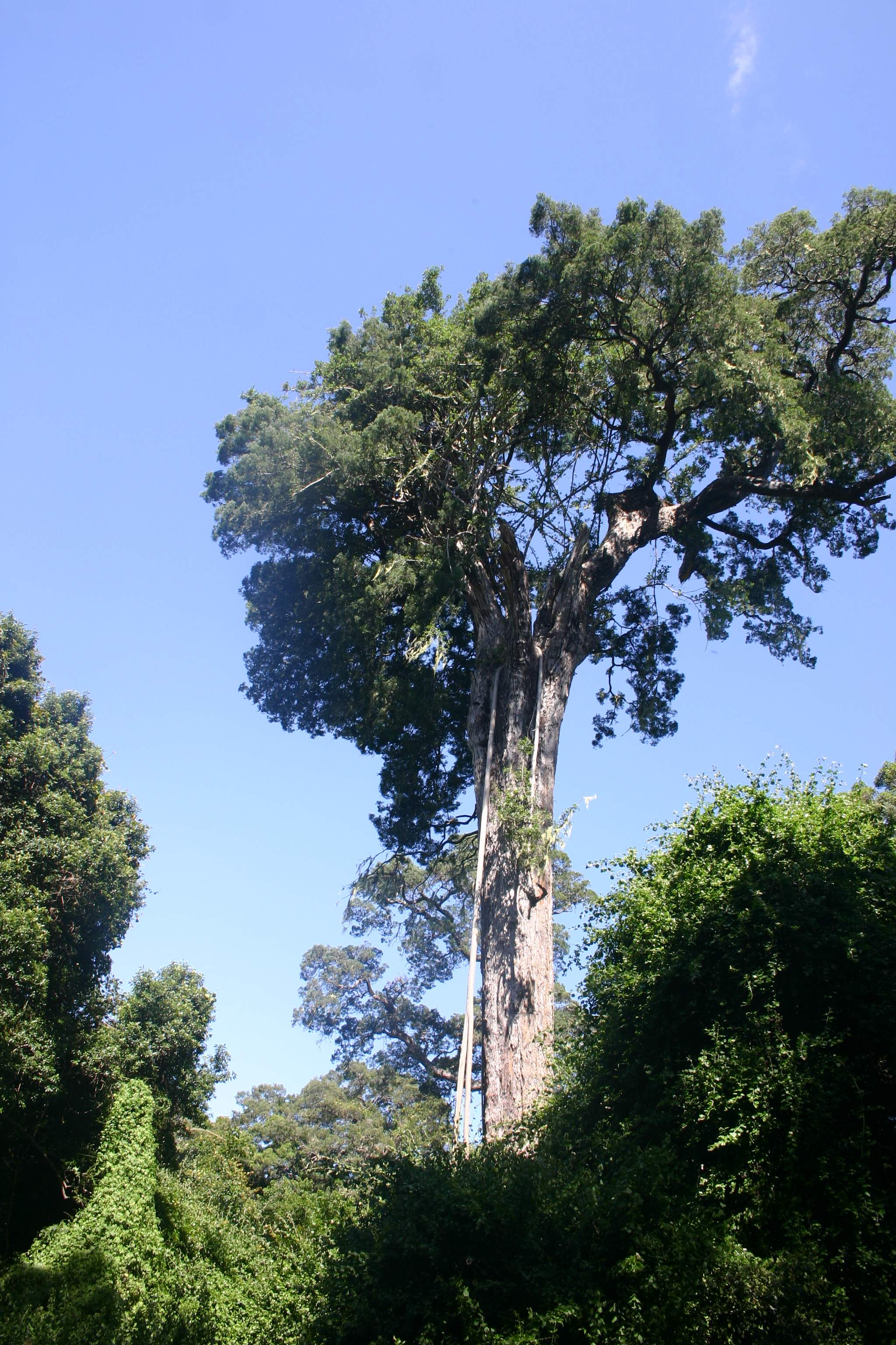 Ficus burtt-davyi Hutch. on yellowwood (Podocarpus falcatus) at Nature's Valley, South Africa - Kalander Walk